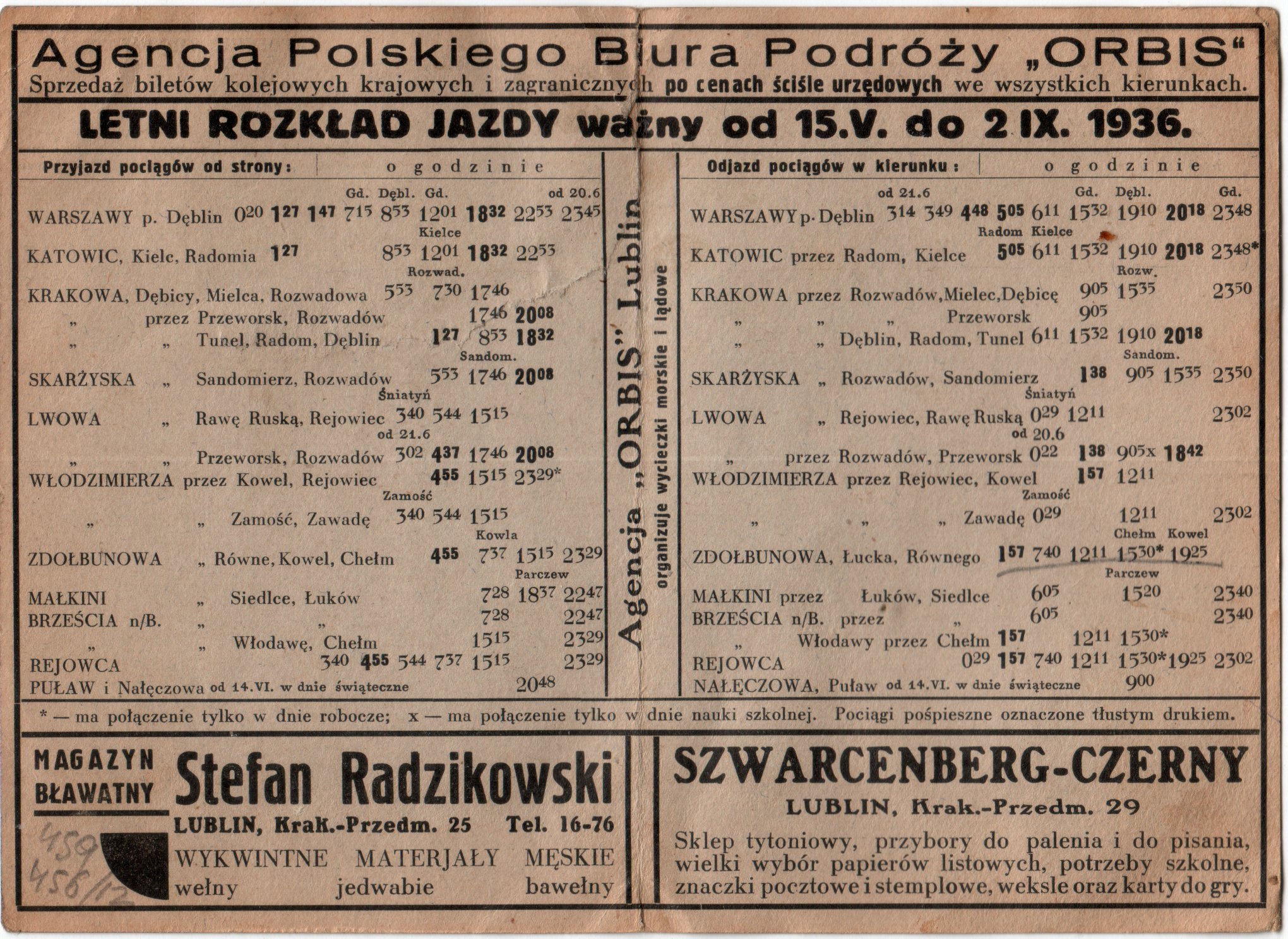 train timetable at station Lublin (Poland), valid May 15 til September 2 1936